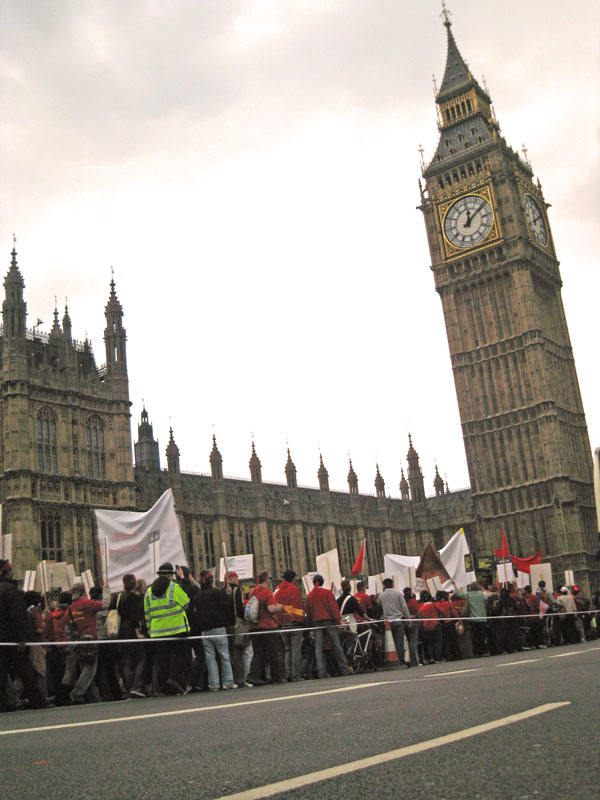 Protesters from Burma Campaign UK march past Big Ben in 2007.